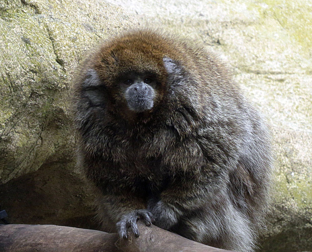 Native to eastern Bolivia and Paraguay, the White-eared Titi Monkey is locally known as the Huicoco de Bolivia. Photo from Santa Barbara Zoo, California. In context at